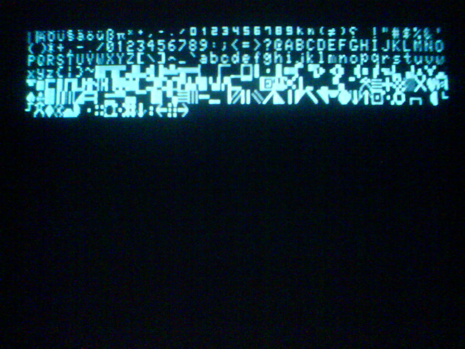 Colour Genie german characters